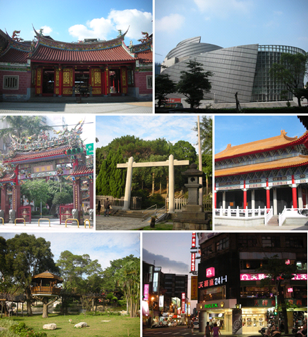 Montage of images of Taoyuan District, Taoyuan City.